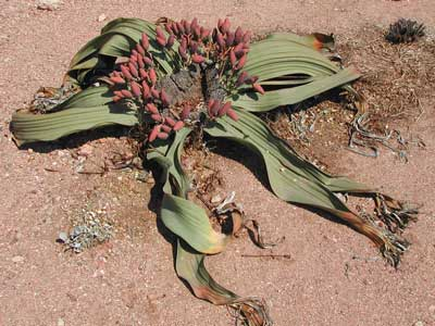 Picture of a Welwitschia mirabilis (female) in Namibia.